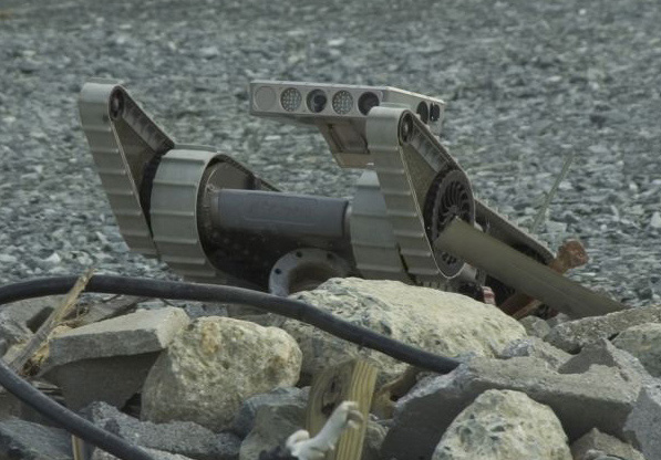 SUGV - by Steve Harding (Photo Courtesy of U.S. Army)